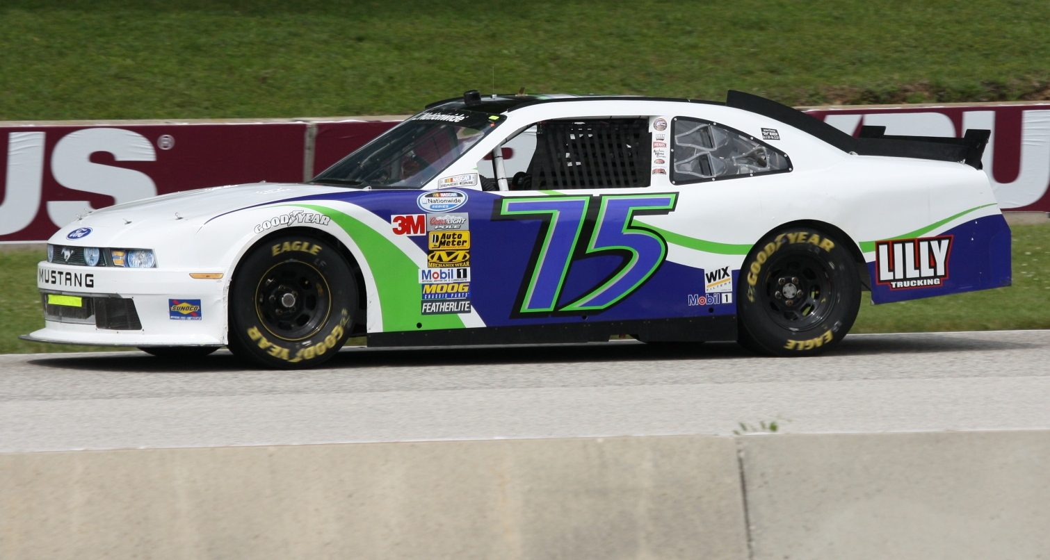 NASCAR driver Carl Long racing his stock car at Road America at the 2011 Bucyros 200 Nationwide Series race.